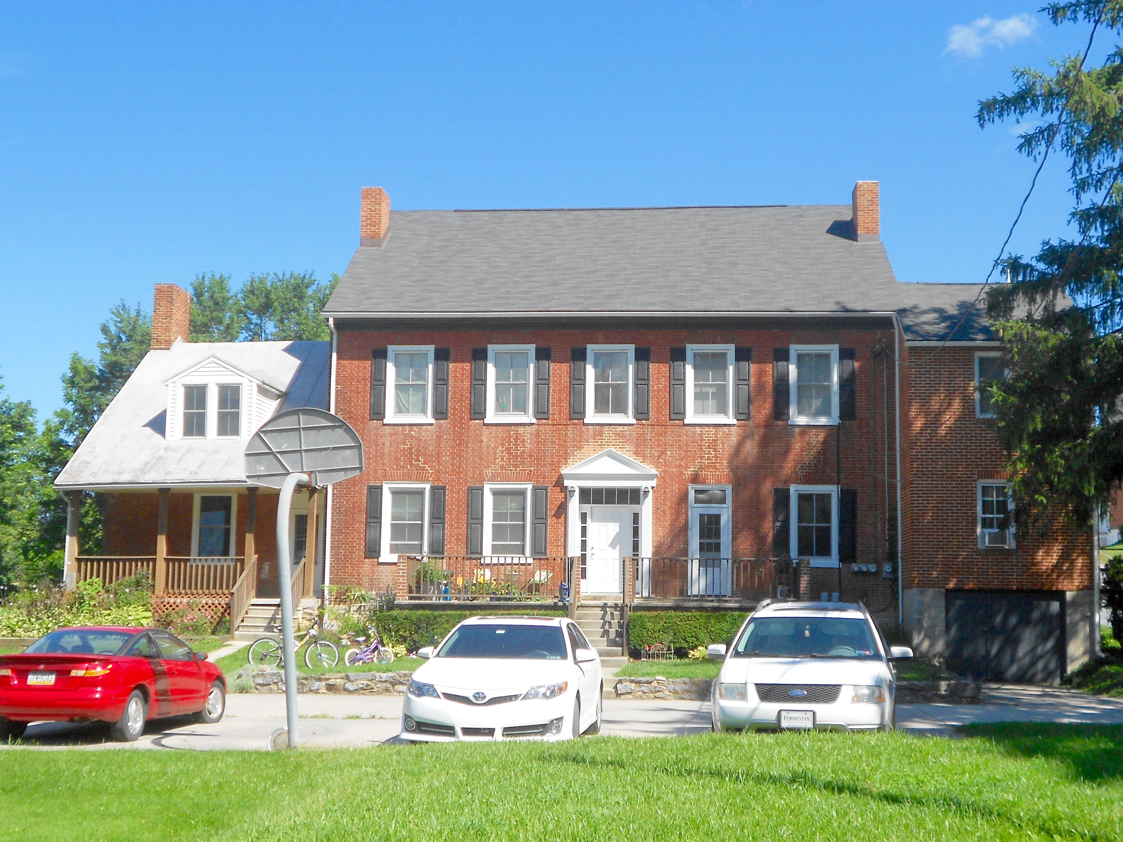 "Red Brick Apartments" at 1805 Walnut Bottom Road (corner of Penn Drive) south of Newville, Pennsylvania in Penn Township, Cumberland County, Pennsylvania